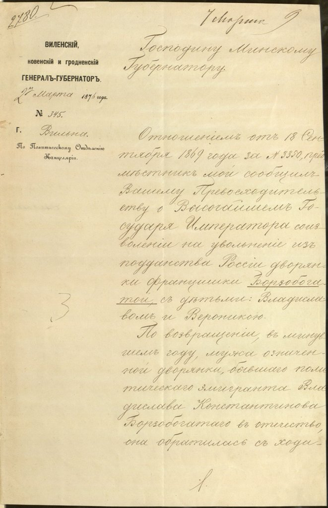 Decree of the Vilno General-Governor Peter Albedinski to Minsk Governor (first page). Signed: March 2, 1876 AD in Vilno city (Russian empire)